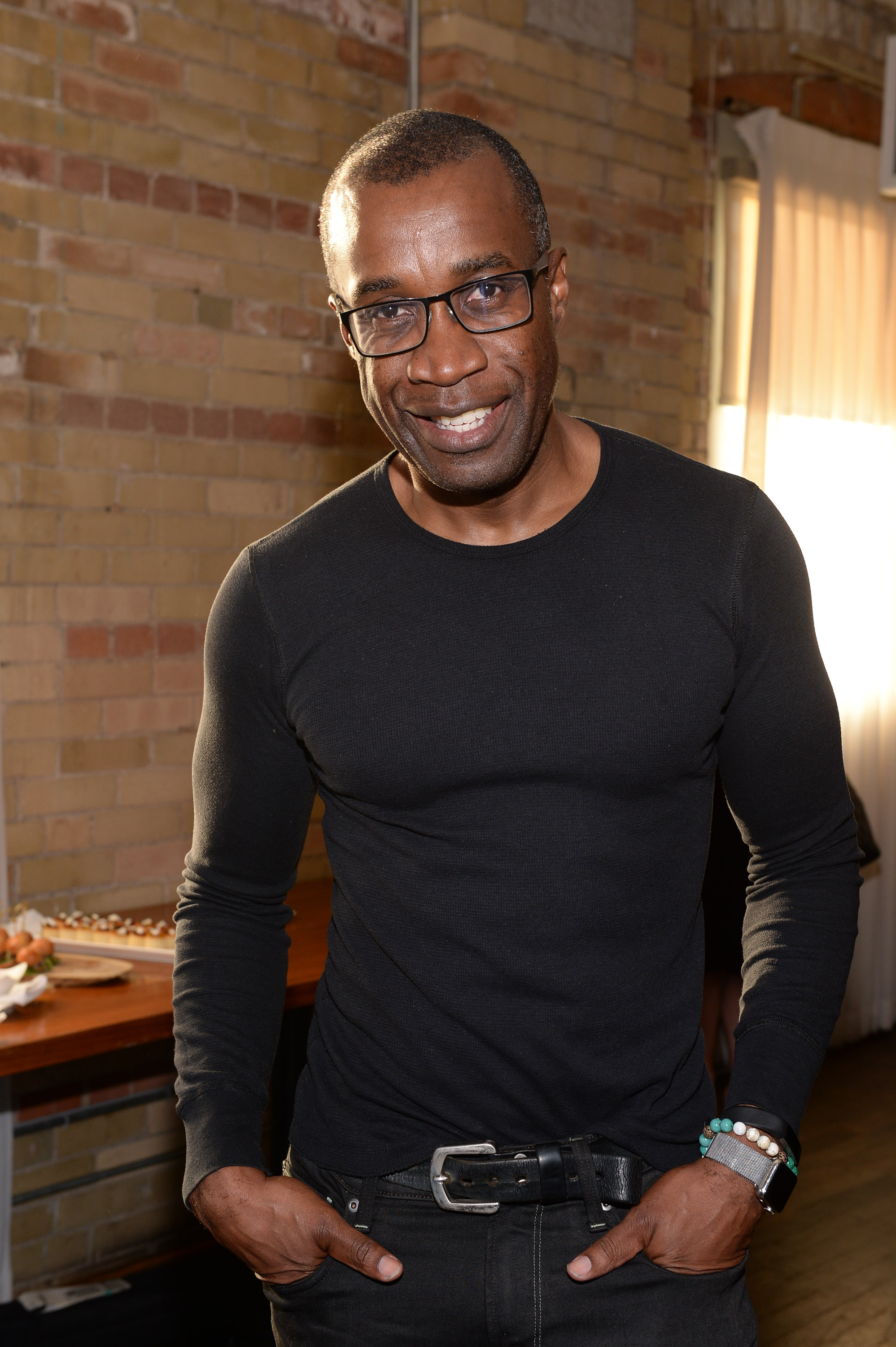 Clement Virgo at the 2017 CFC Alumni at TIFF Reception. Photo: Sam Santos/George Pimentel Photography.